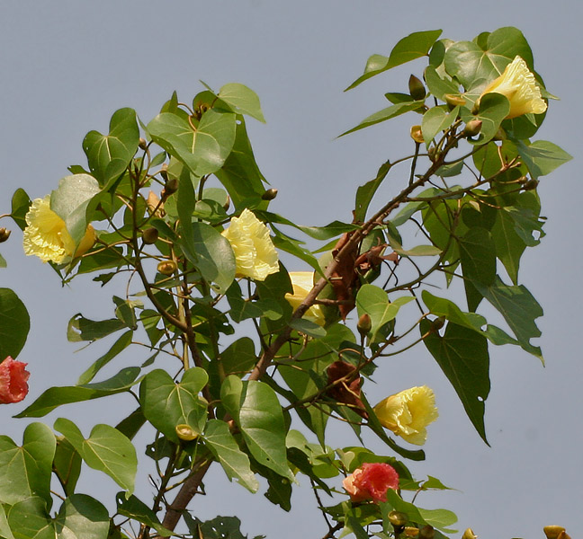 Indian Tulip tree, Bhendi, Paras Peepal, Portia tree, Umbrella tree, Pacific Rosewood, Suri, Surina or ranbhendi Thespesia populnea in Krishna Wildlife Sanctuary, Andhra Pradesh, India.